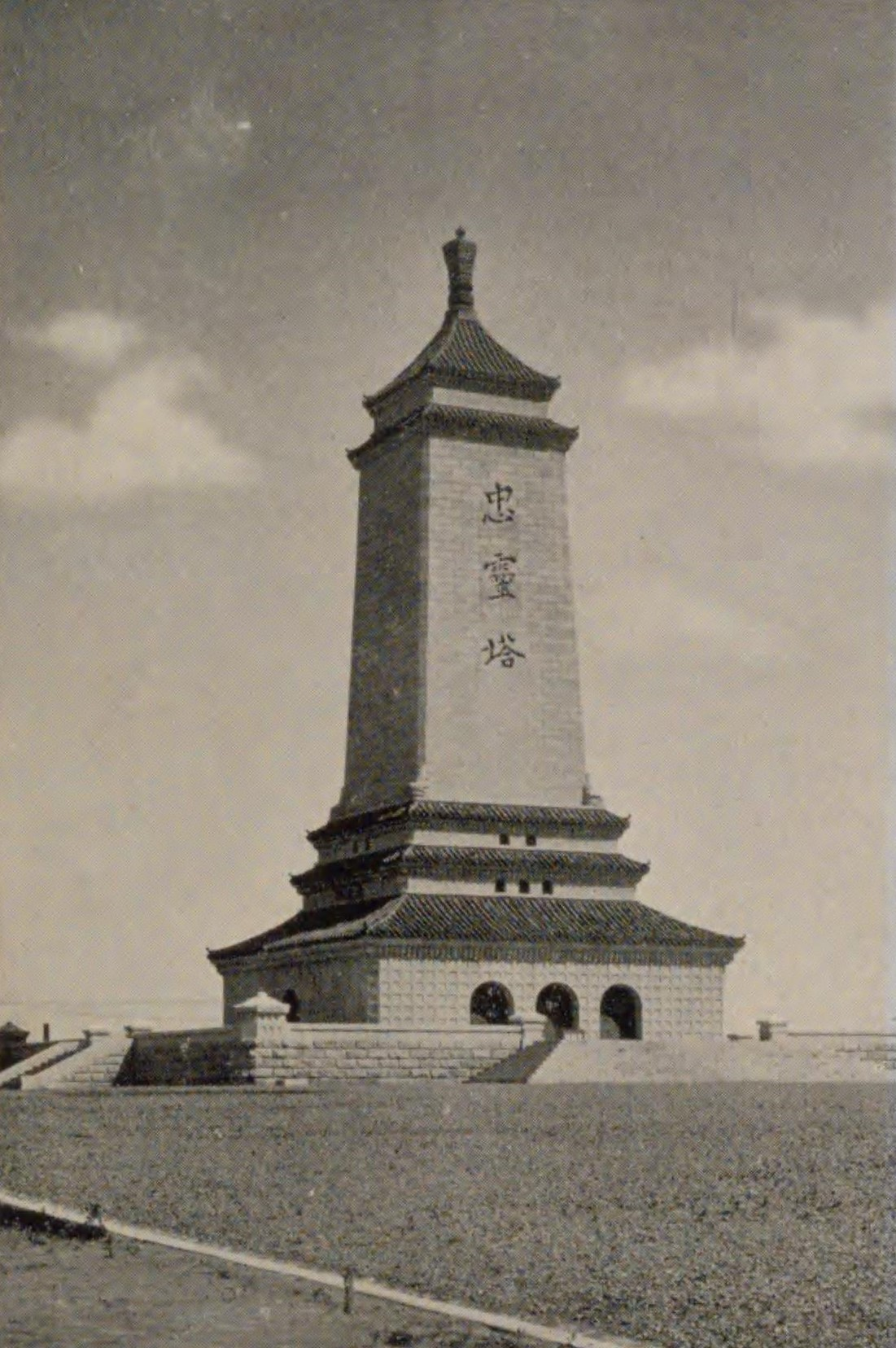 It's a photo of Hsinking Chuureitou published in 1937 in name of a publisher 松村好文堂